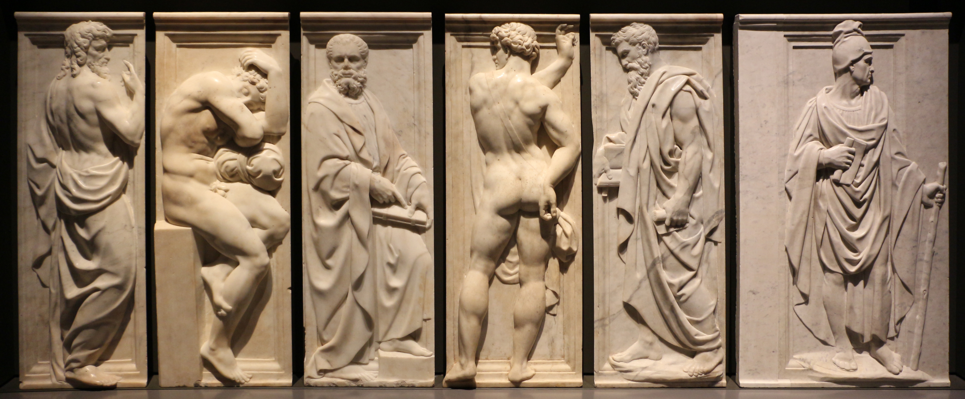 Reliefs from the choir of Santa Maria del Fiore